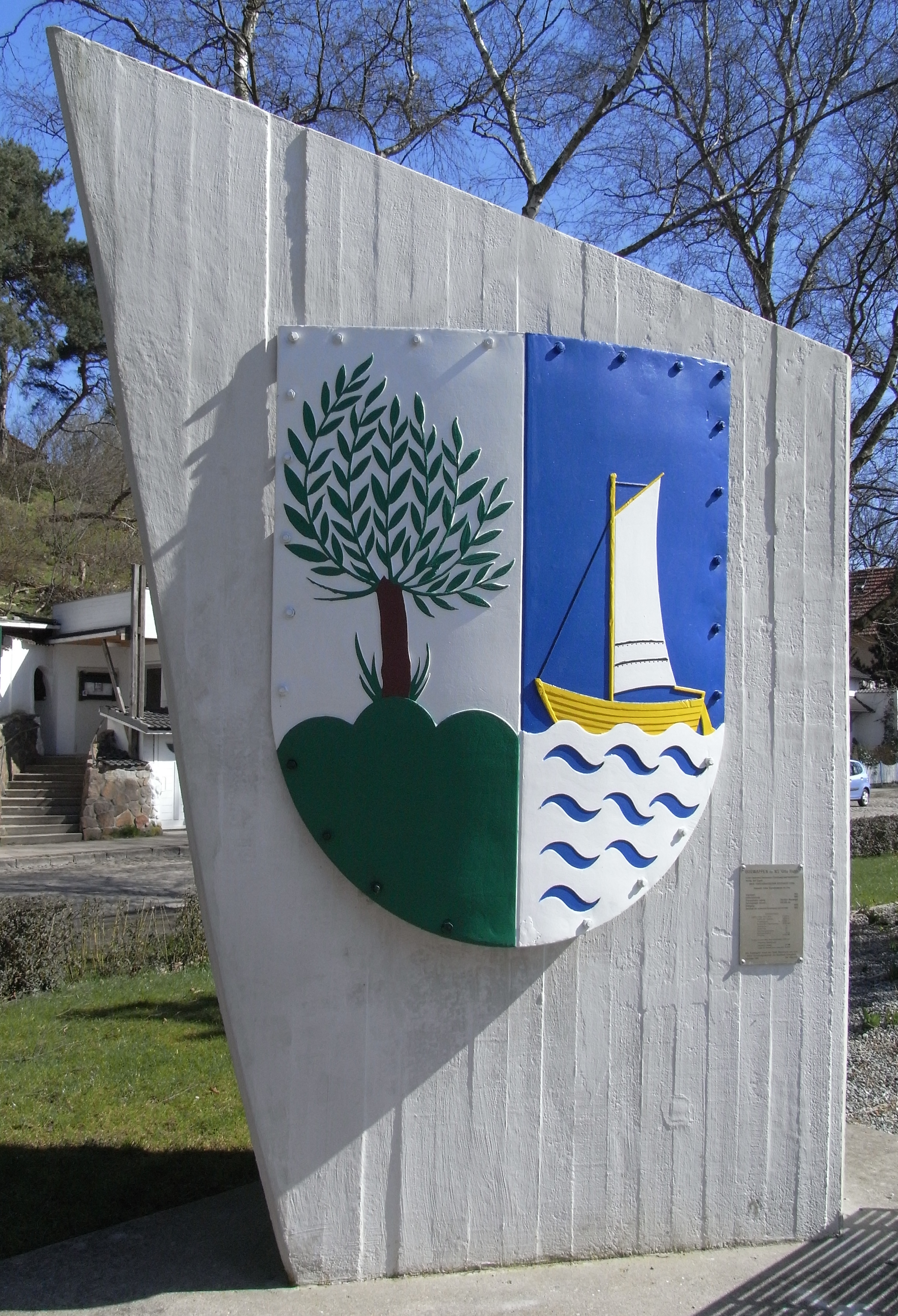 Bow emblem of the NS Otto Hahn (present of the GKSS research centre to the city of Geesthacht), displayed as a memorial near Geesthacht harbour, Germany.